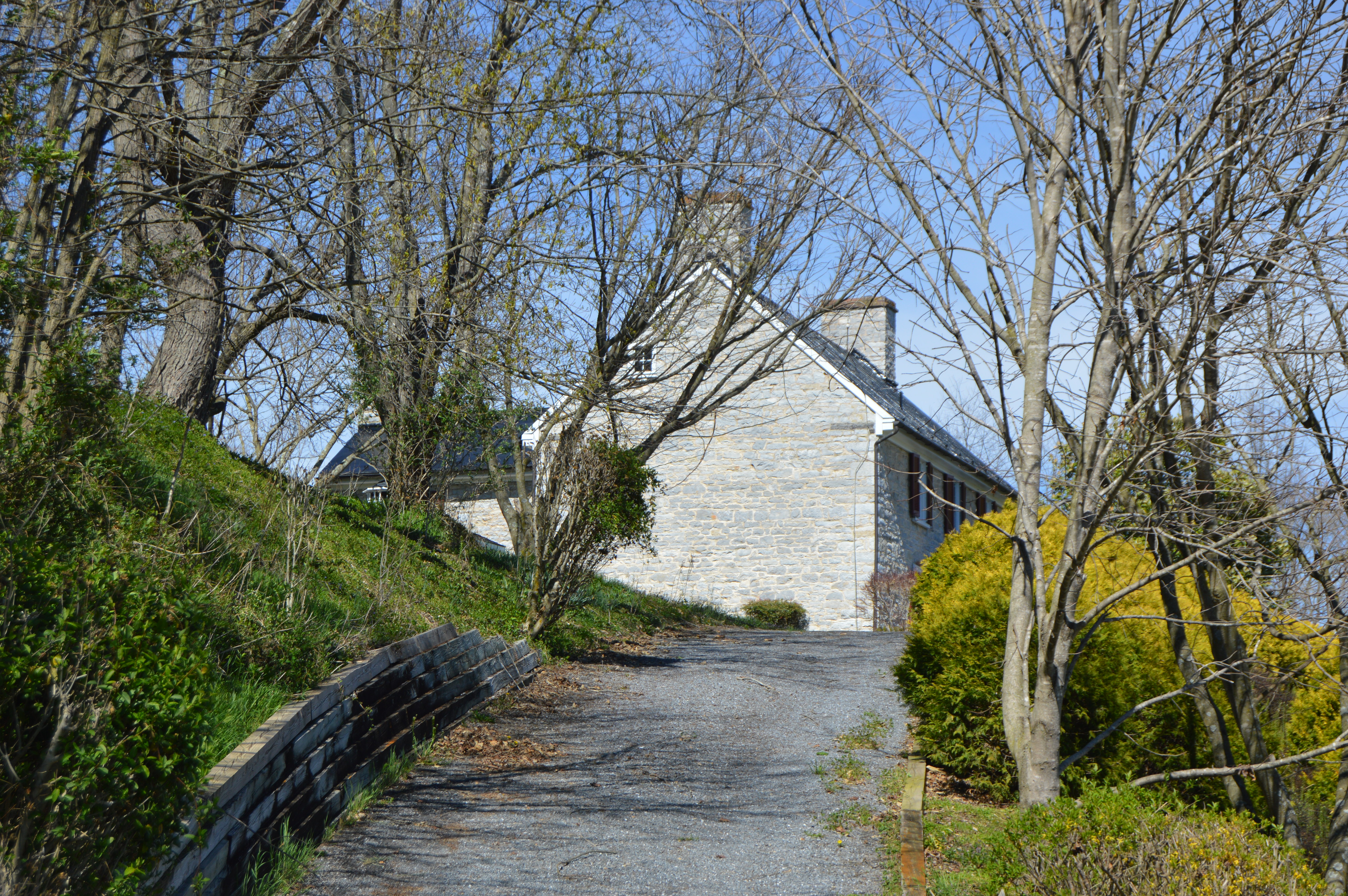 Northern side of Mount Pleasant, located on Middle River Road west of Spring Hill and north of Staunton in Augusta County, Virginia, United States. Built in 1780, it is listed on the National Register of Historic Places.